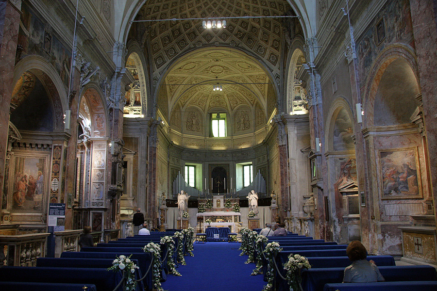 Church of San Pietro in Montorio in Rome.